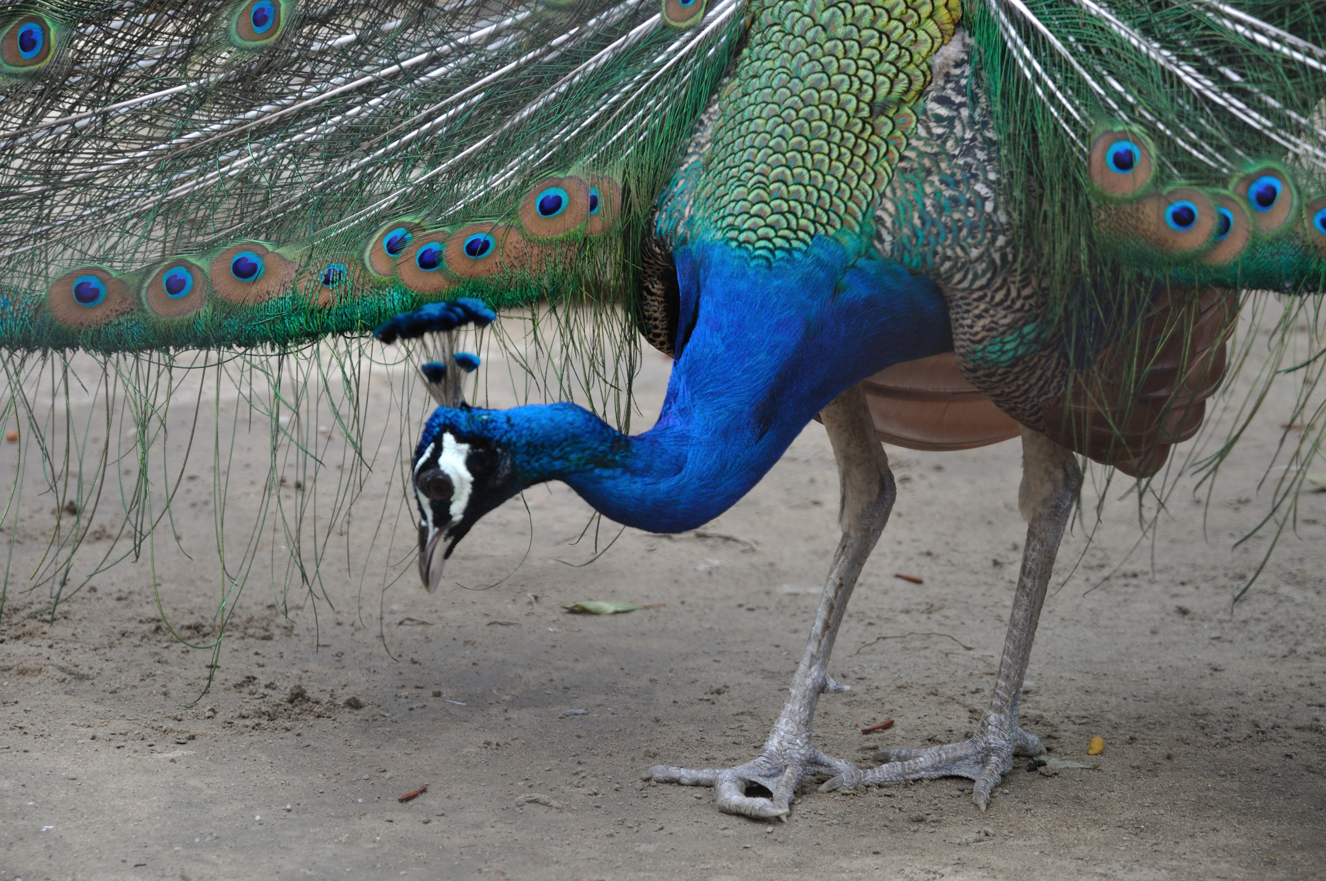 The Indian Peafowl or Blue Peafowl (Pavo cristatus) is a large and brightly coloured bird of the pheasant family native to South Asia. Photographs taken at the Alipore Zoological Garden, Kolkata.